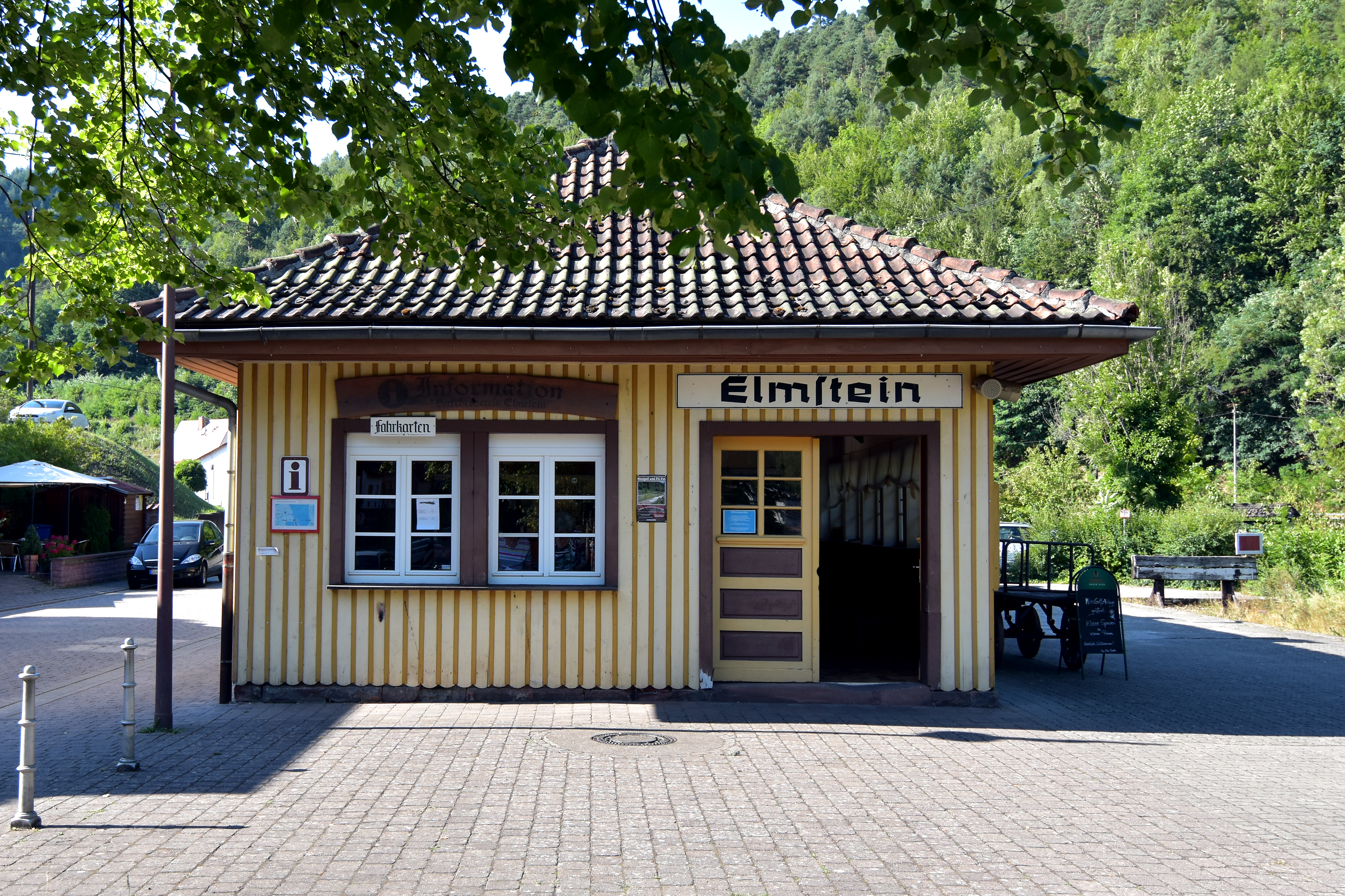 Railstation Elmstein